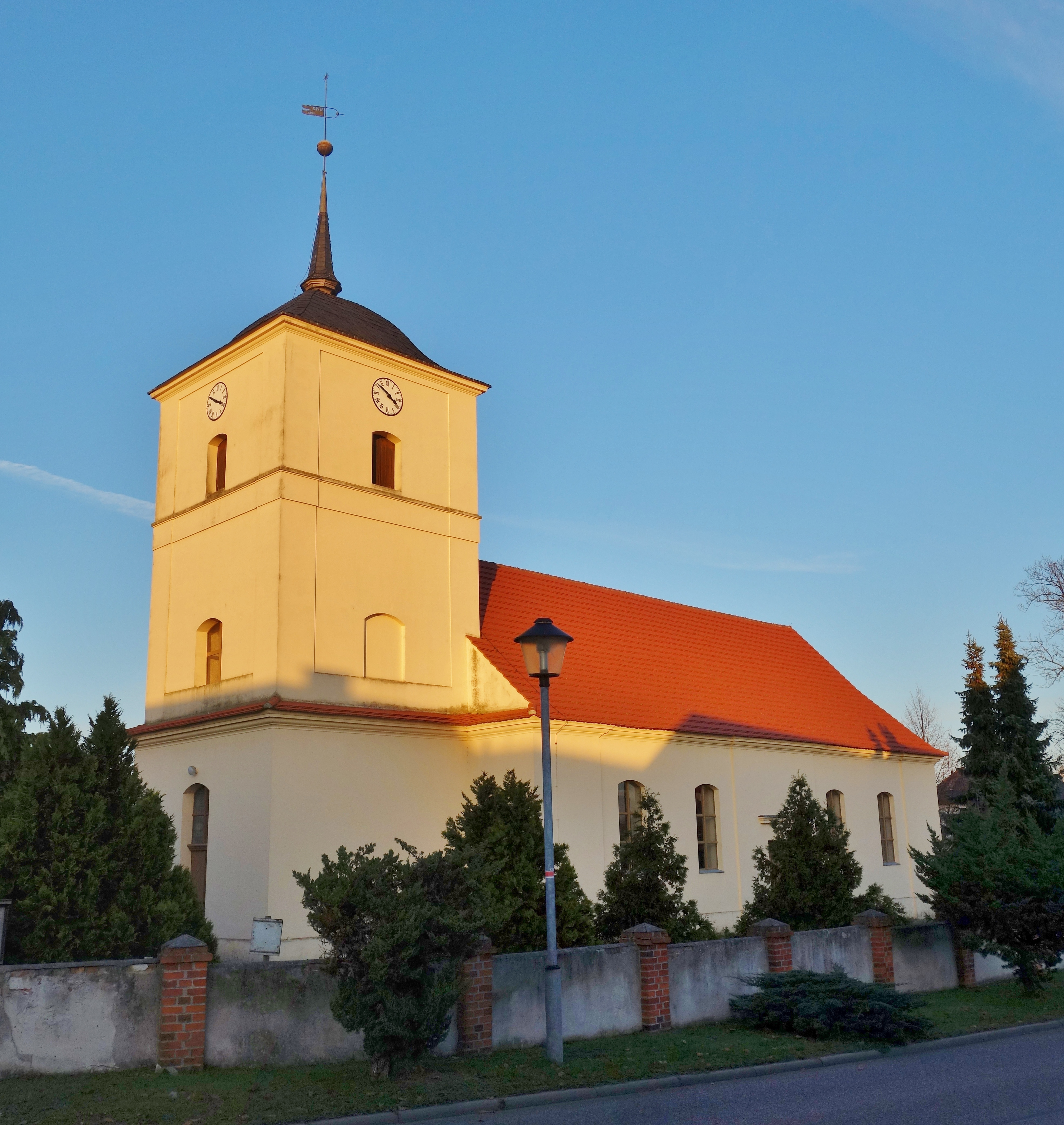 South-western view of church in Steckelsdorf, Rathenow municipality, Havelland district, Brandenburg state, Germany